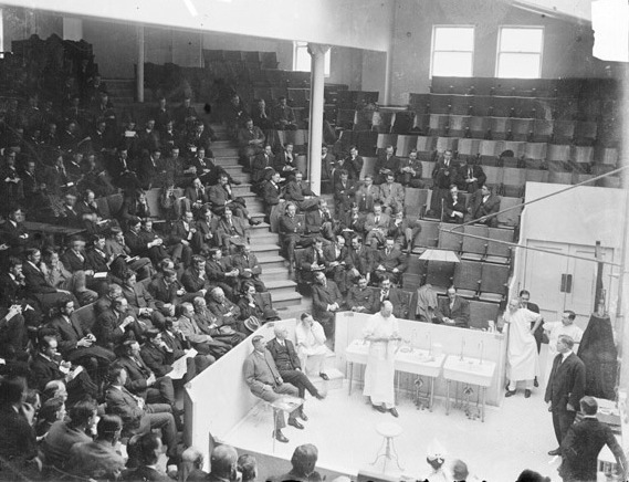 Image of Dr. John B. Murphy conducting a clinic at Mercy hospital, showing Dr. Murphy, looking at something he is holding in his hands, standing on a platform with other men in the center of an auditorium whose seats are filled with men.